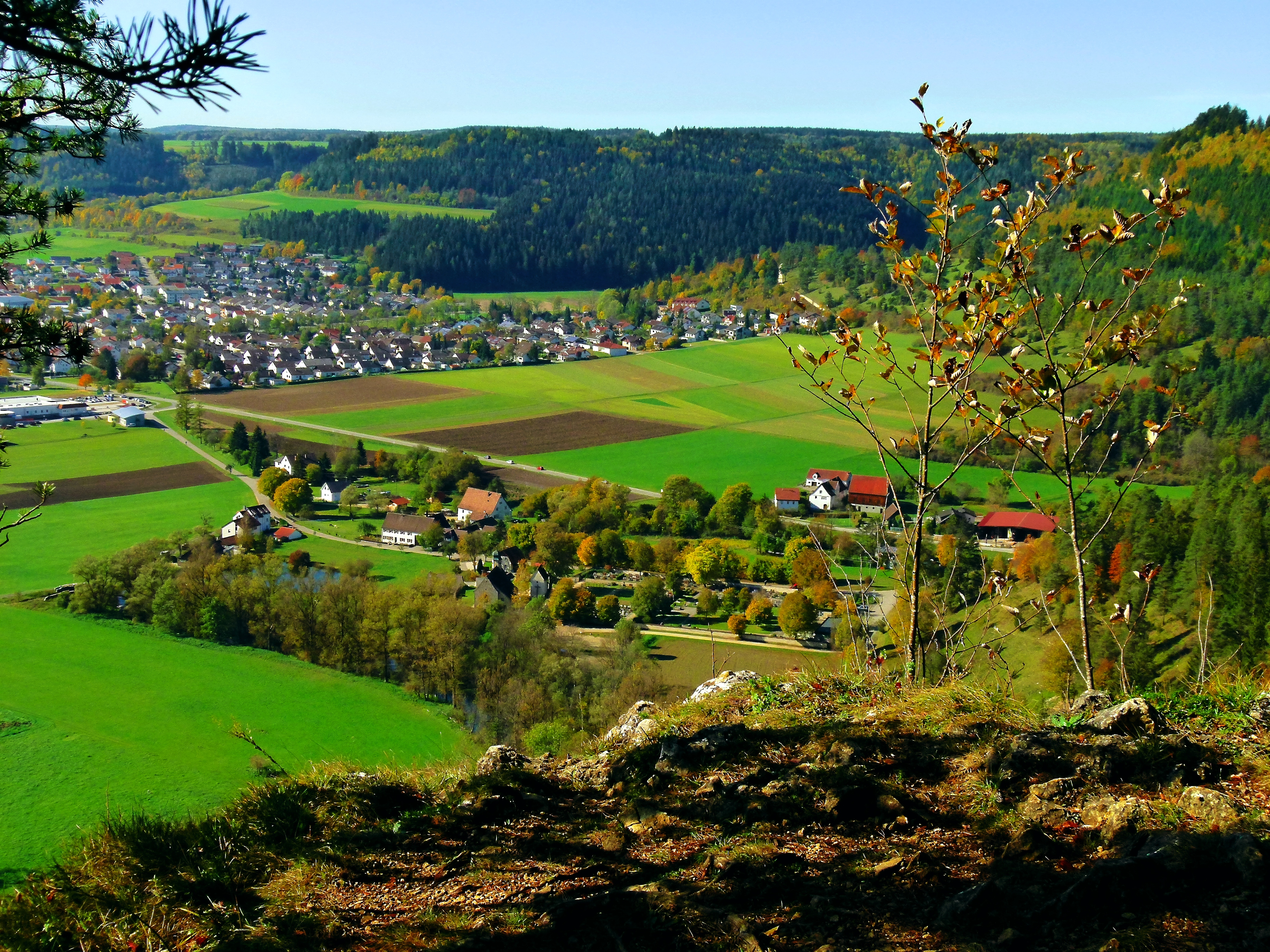 View From The Yellow Rock